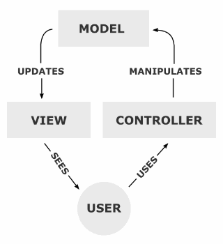 The model, view, and controller (MVC) pattern relative to the user.